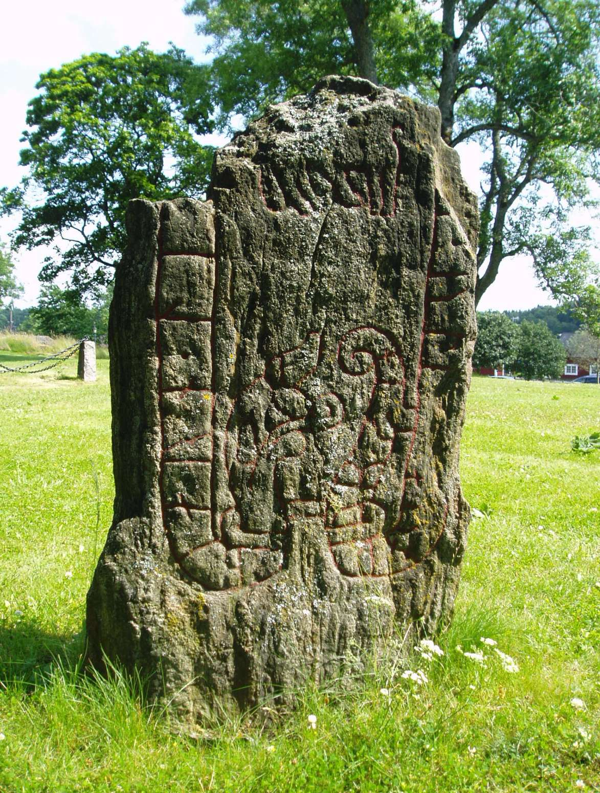 Runestone Sö 239 from Häringe